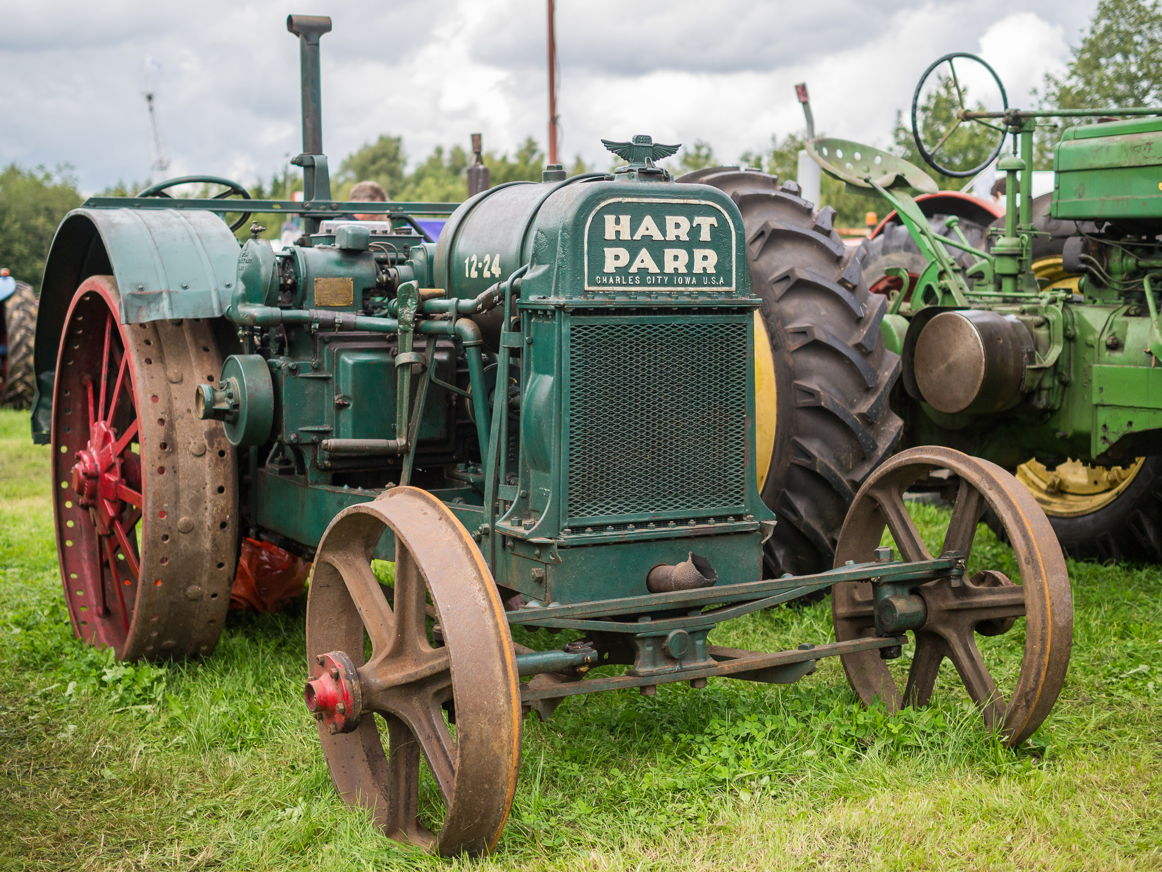 Hart-Parr 12-24 tractor